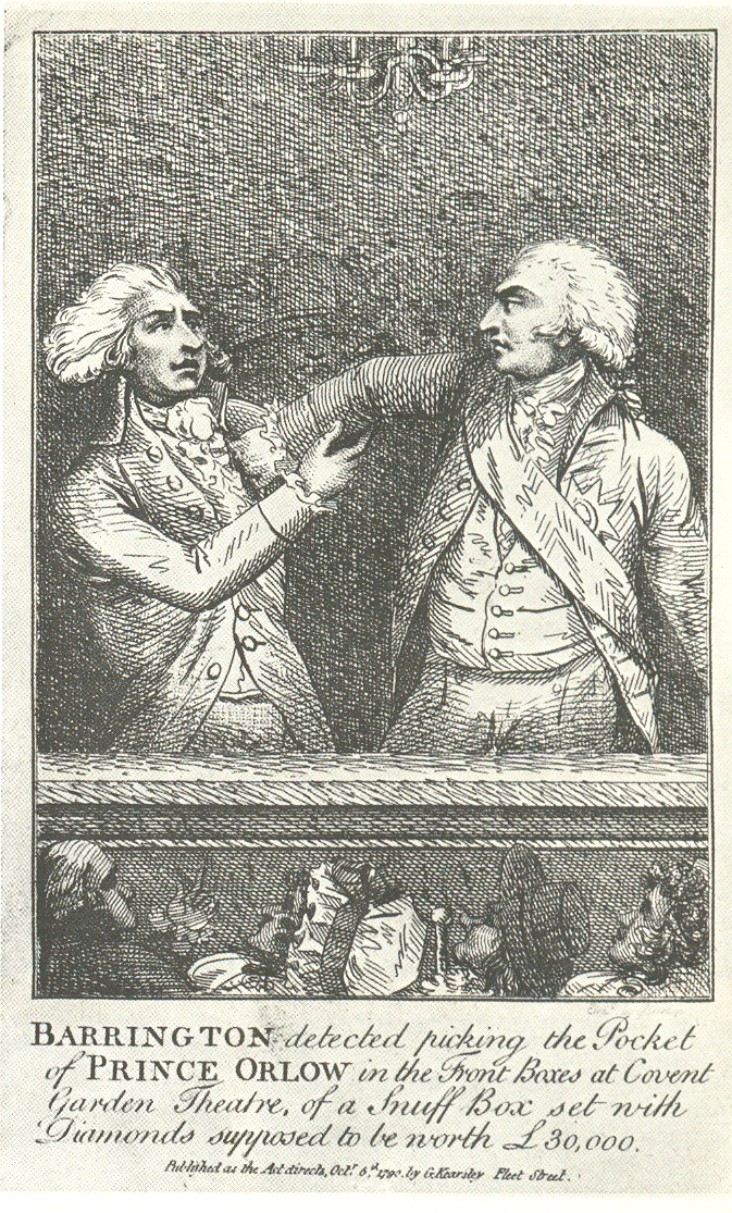 shows George Barrington being apprehended while picking the pocket of Count Orlov at the Covent Garden Theatre.